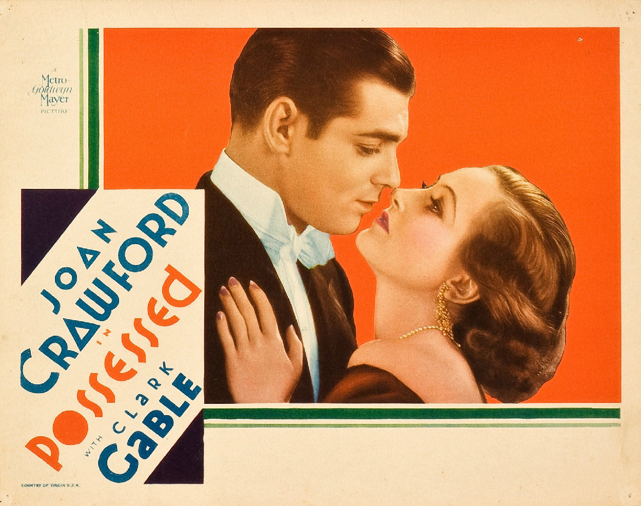 Lobby card for the 1931 film Possessed.